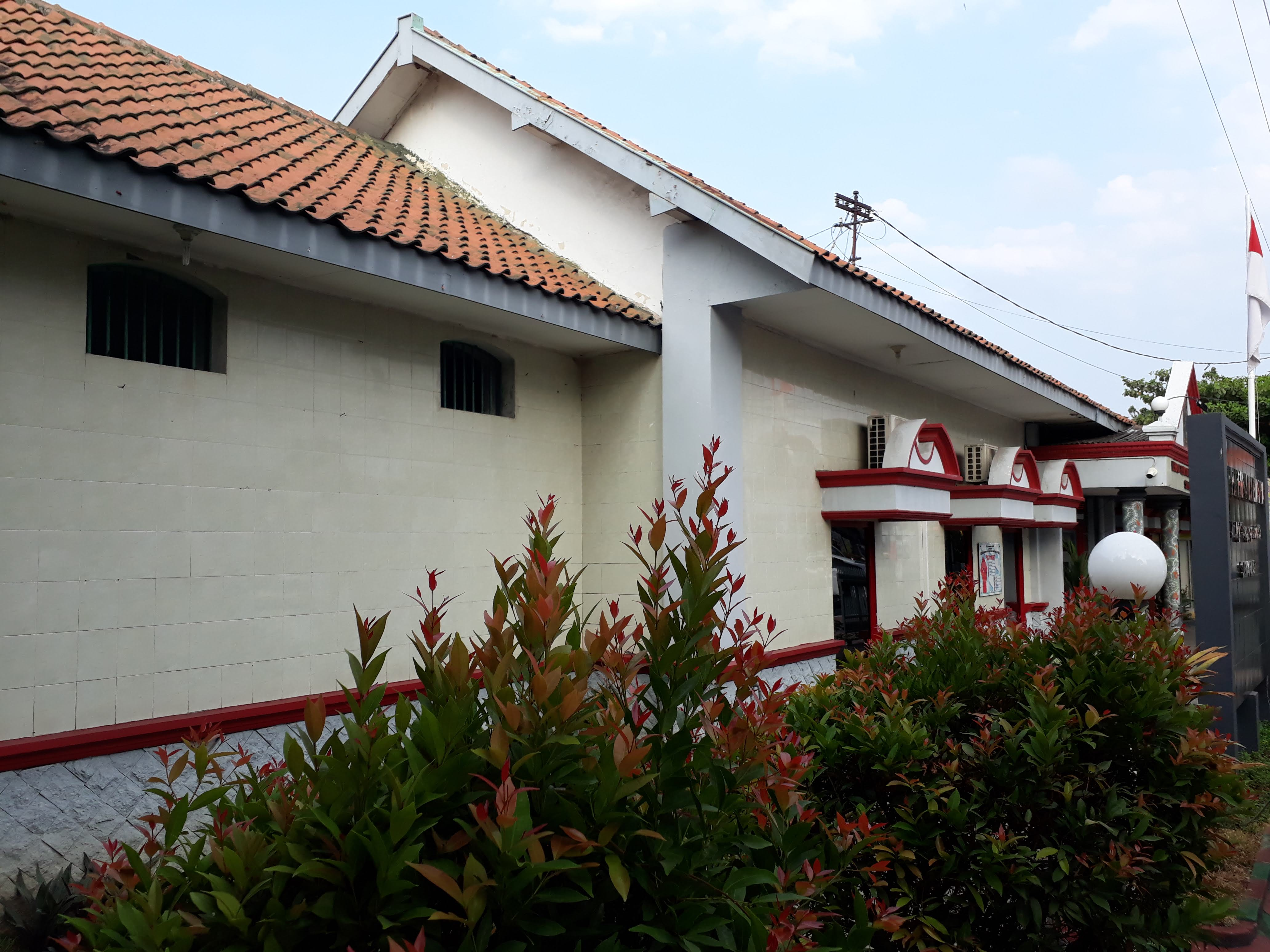 The SemarangWomen's Penitentiary, Semarang, Central Java, Indonesia. Formerly Bulu Prison, site of the October 1945 massacre of Japanese detainees